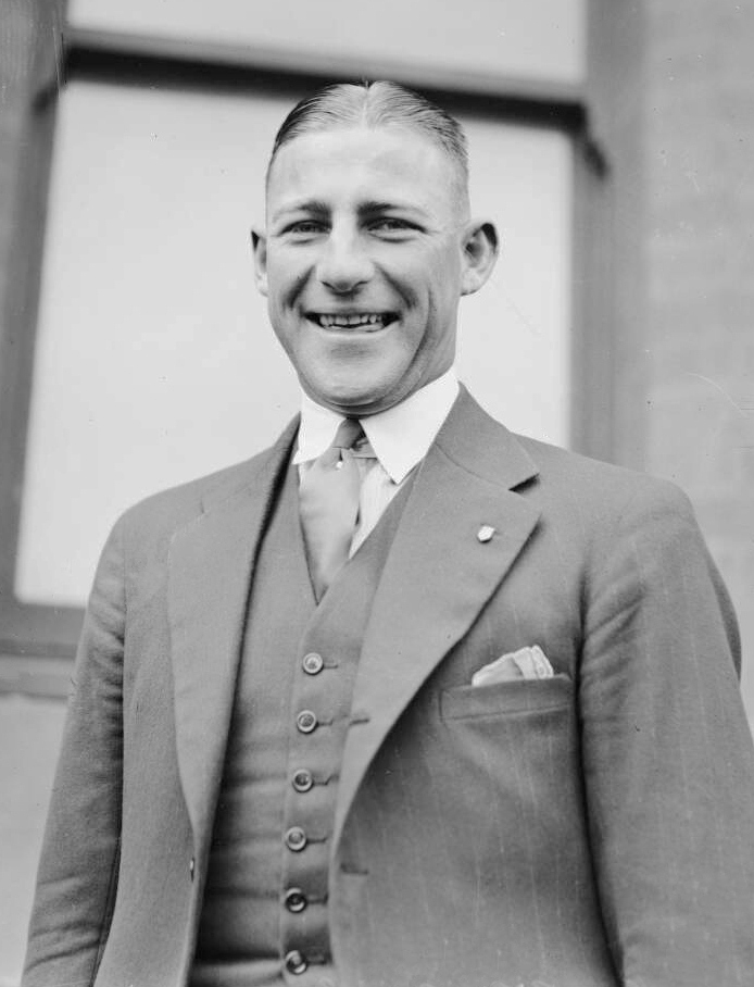 Olympic sculler Bobby Pearce at a formal event, New South Wales, ca. 1930s.